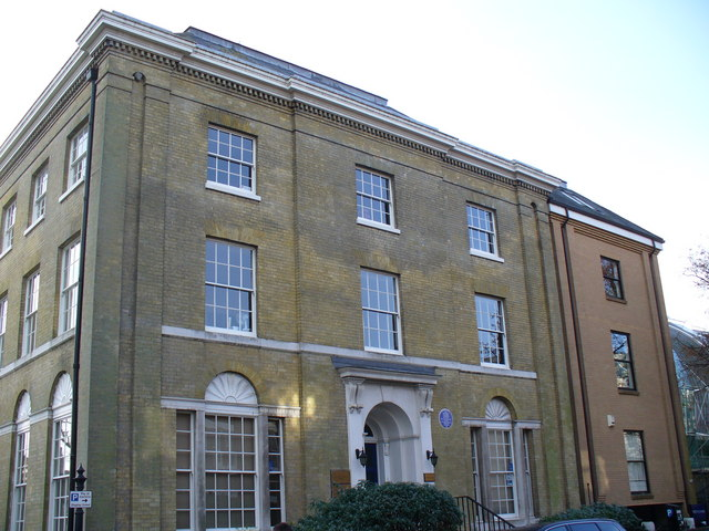 Ordnance Survey History The former Rockstone Place, Southampton, home of Henry James, Director General of the Ordnance Survey.